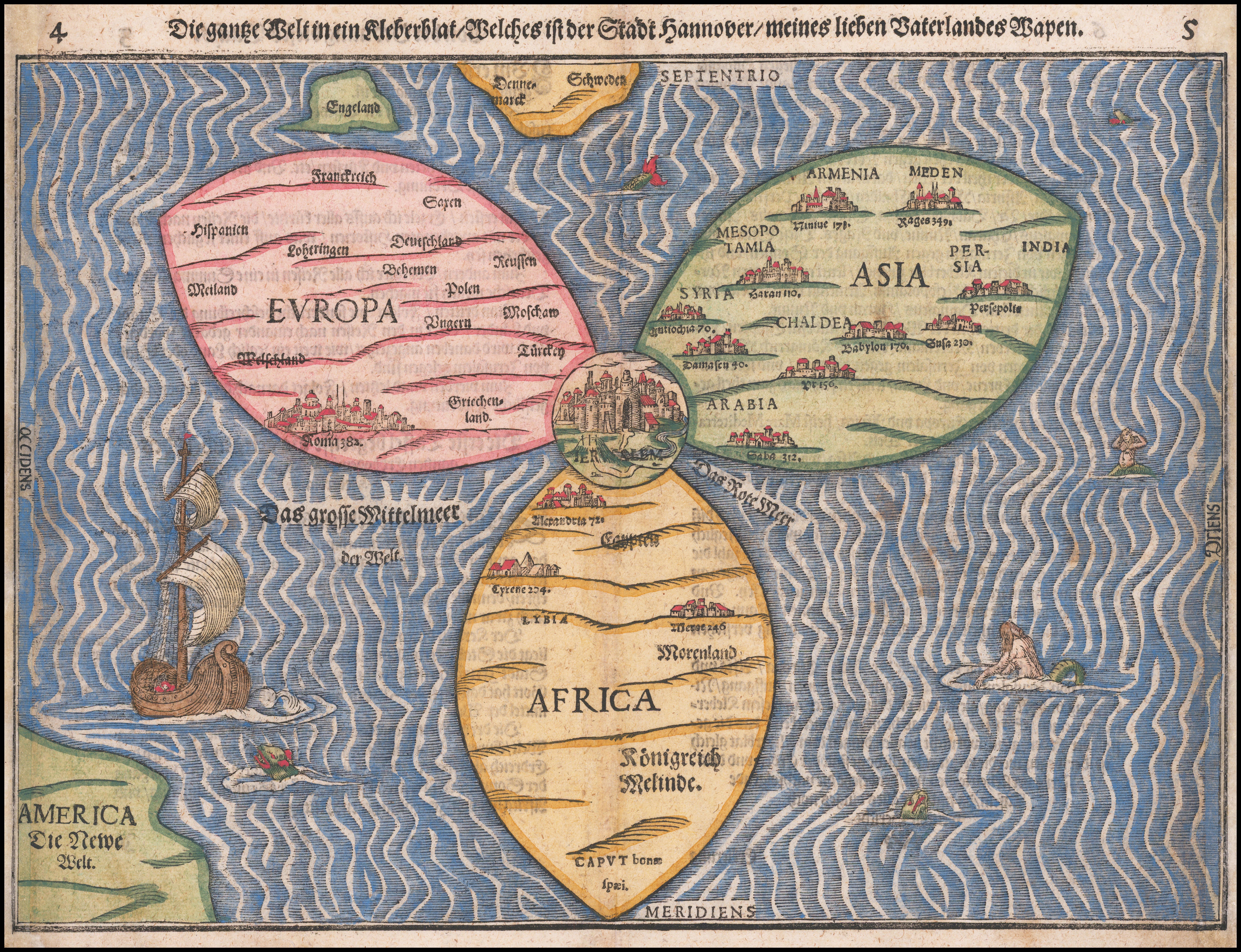 1581 Clover Leaf World Map by Heinrich Buenting